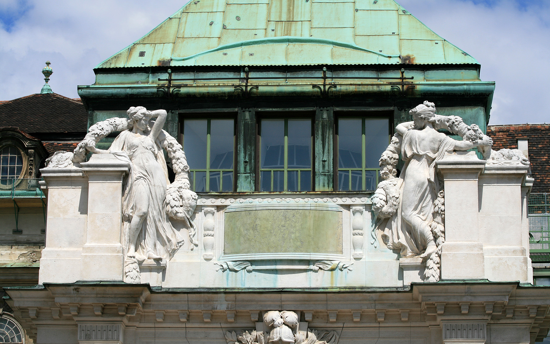 Detail of the Palmenhauses front at Burggarten in Vienna.